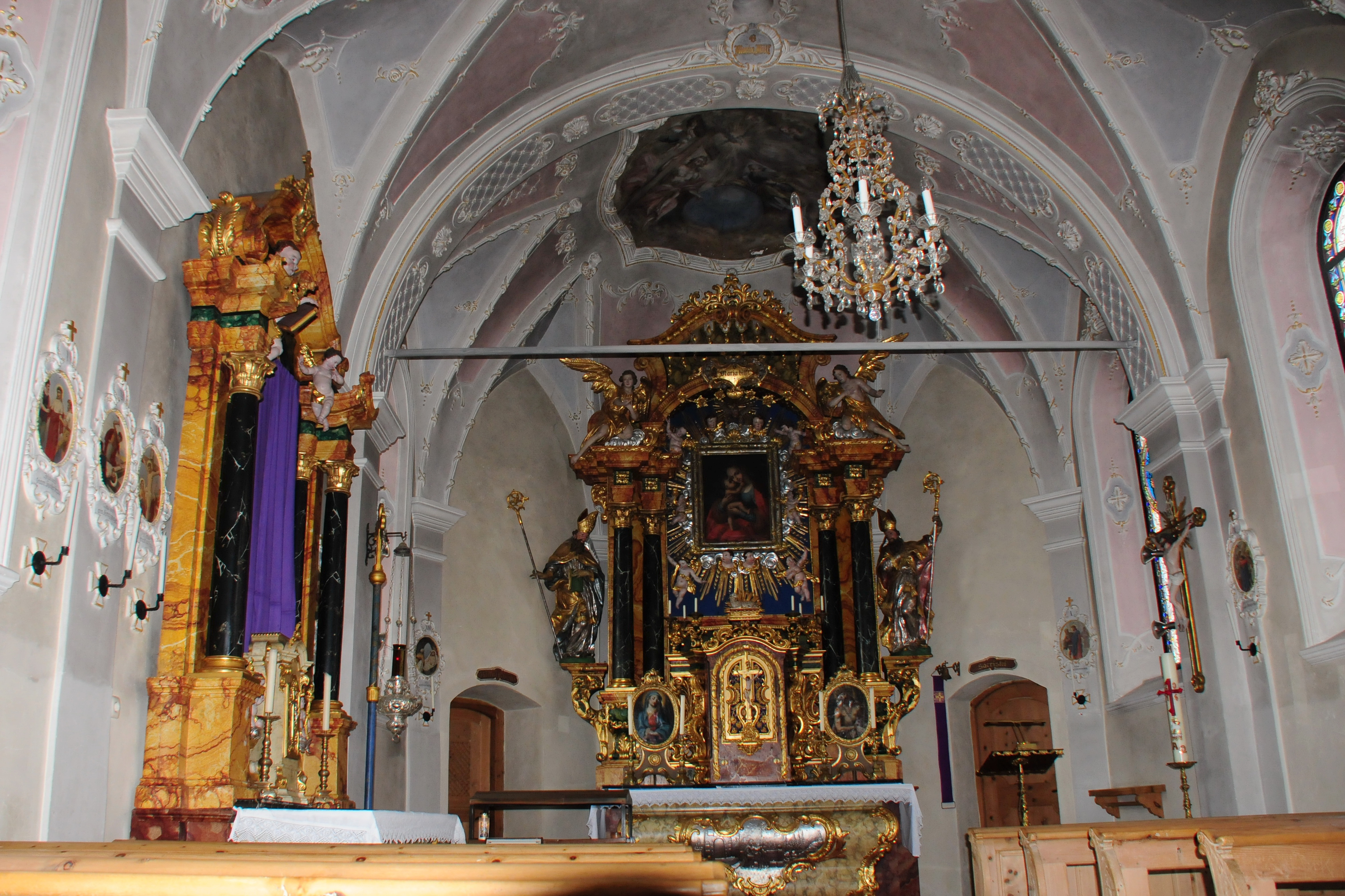 Baroque interior of the church of Gries Otztal Tirol